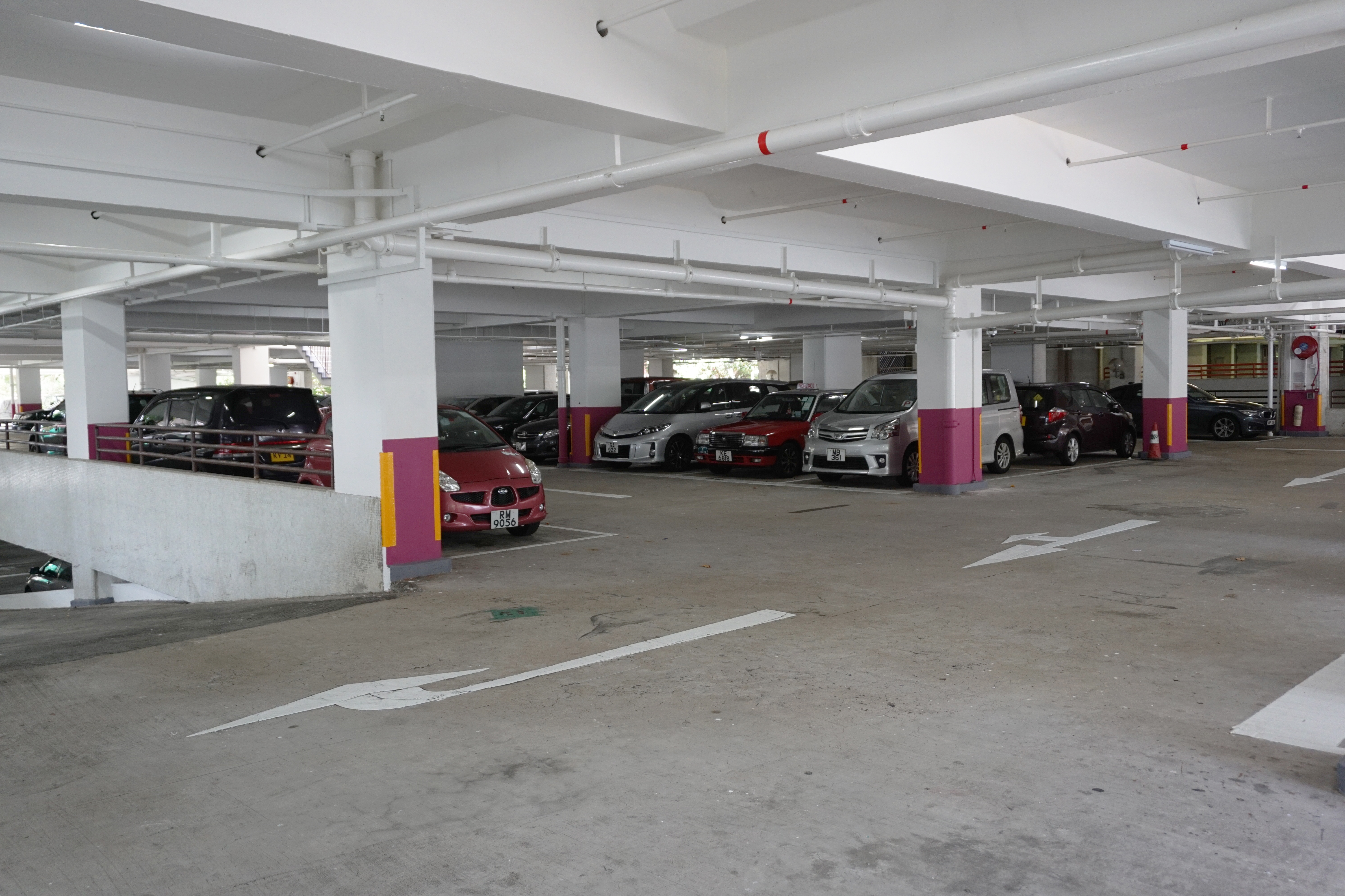 Cheung Wah Estate in Fanling, Hong Kong.